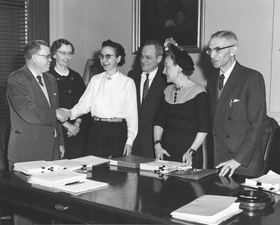 Mabel E. Deutrich (- June 4, 1988) was an American Archivist. In 1975 she was the highest ranking woman in the history of the National Archives.